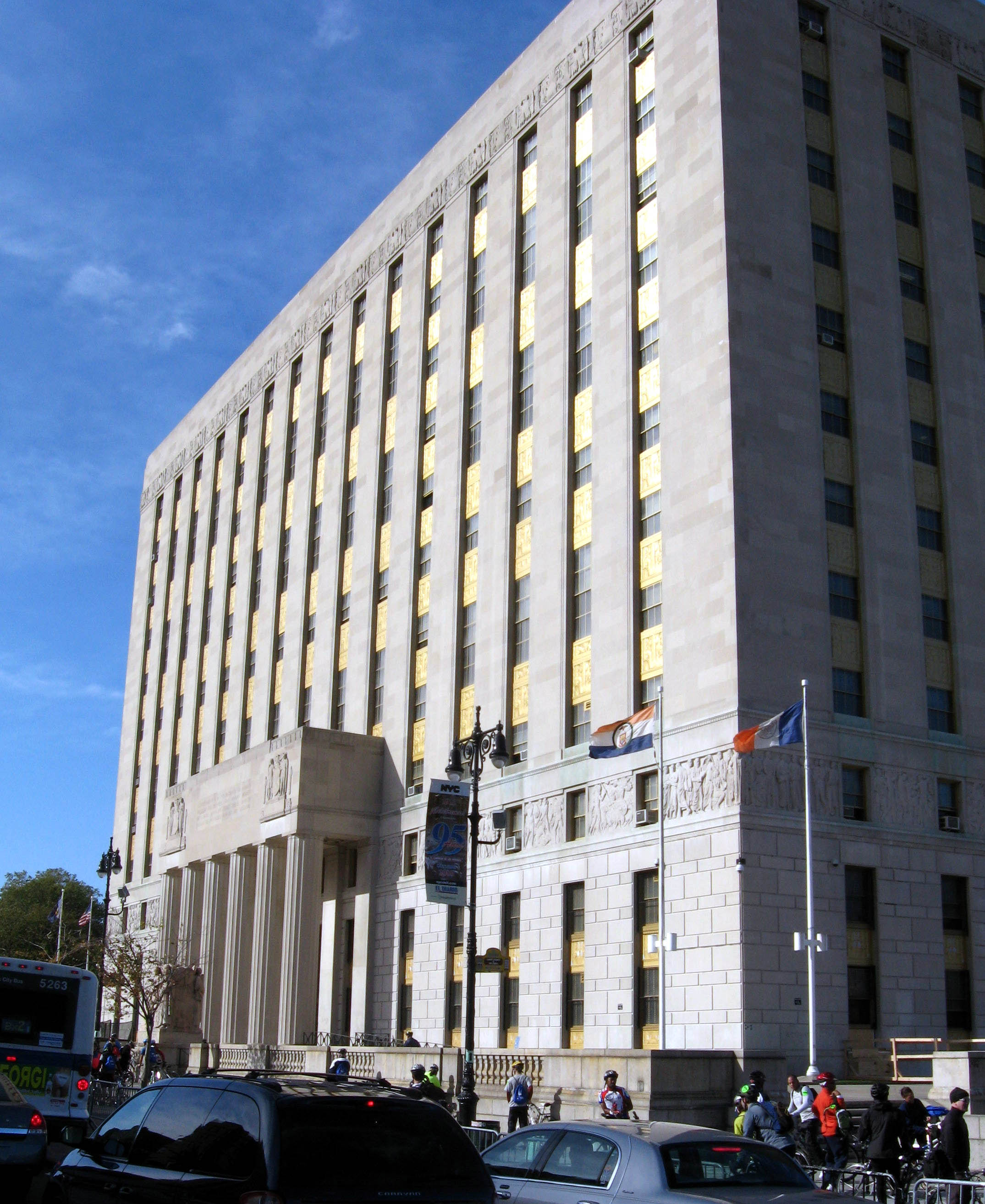 Looking southwest across 161st and Grand Concourse at Bronx County Courthouse on a sunny late morning while bikers assemble for Tour de Bronx. ZIP 10052.